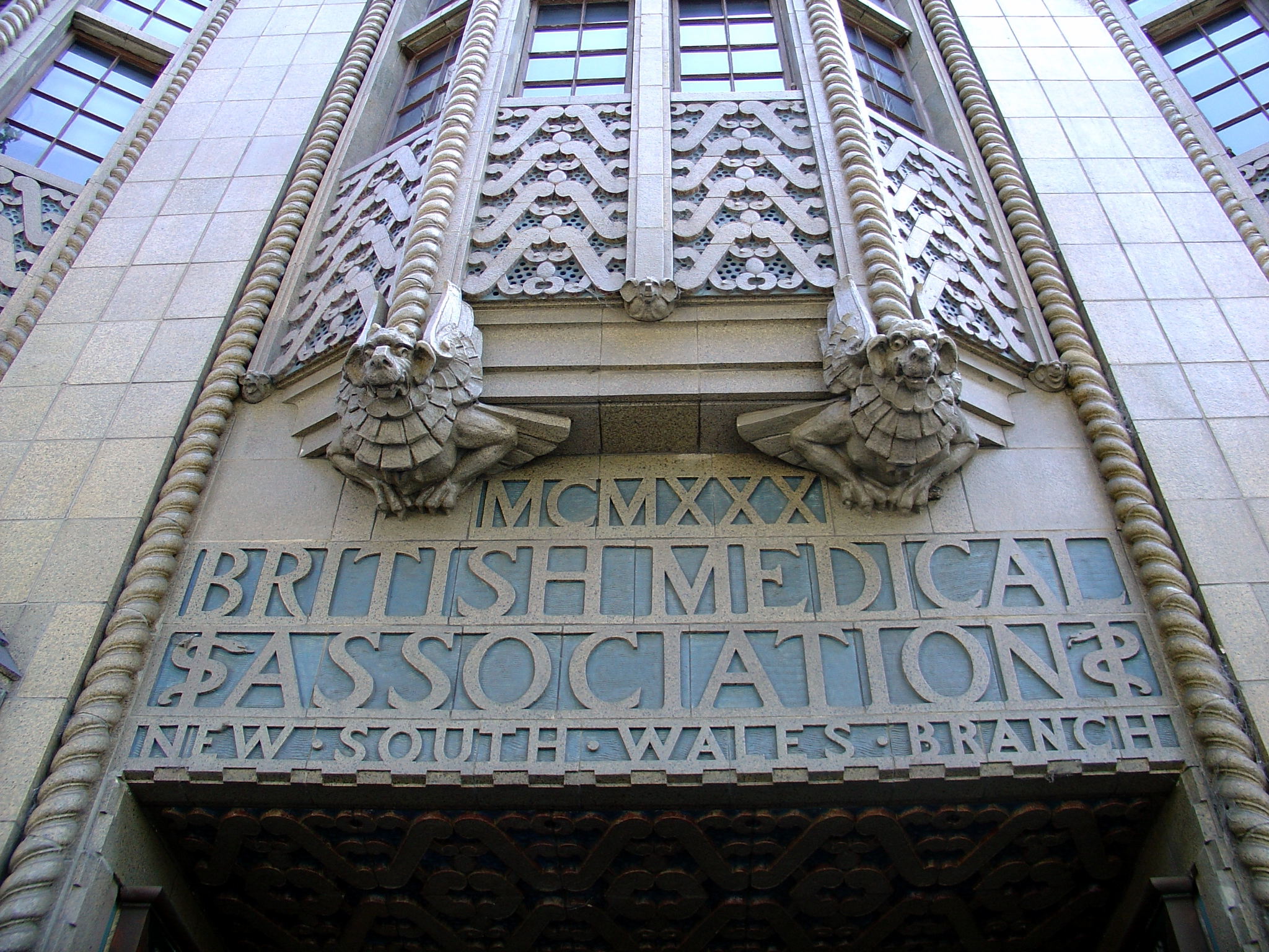 The British Medical Association, New South Wales Branch House at 135–137 Macquarie Street, Sydney, New South Wales, Australia. Designed by Fowell and McConnel, it was the subject of a design competition in 1928.